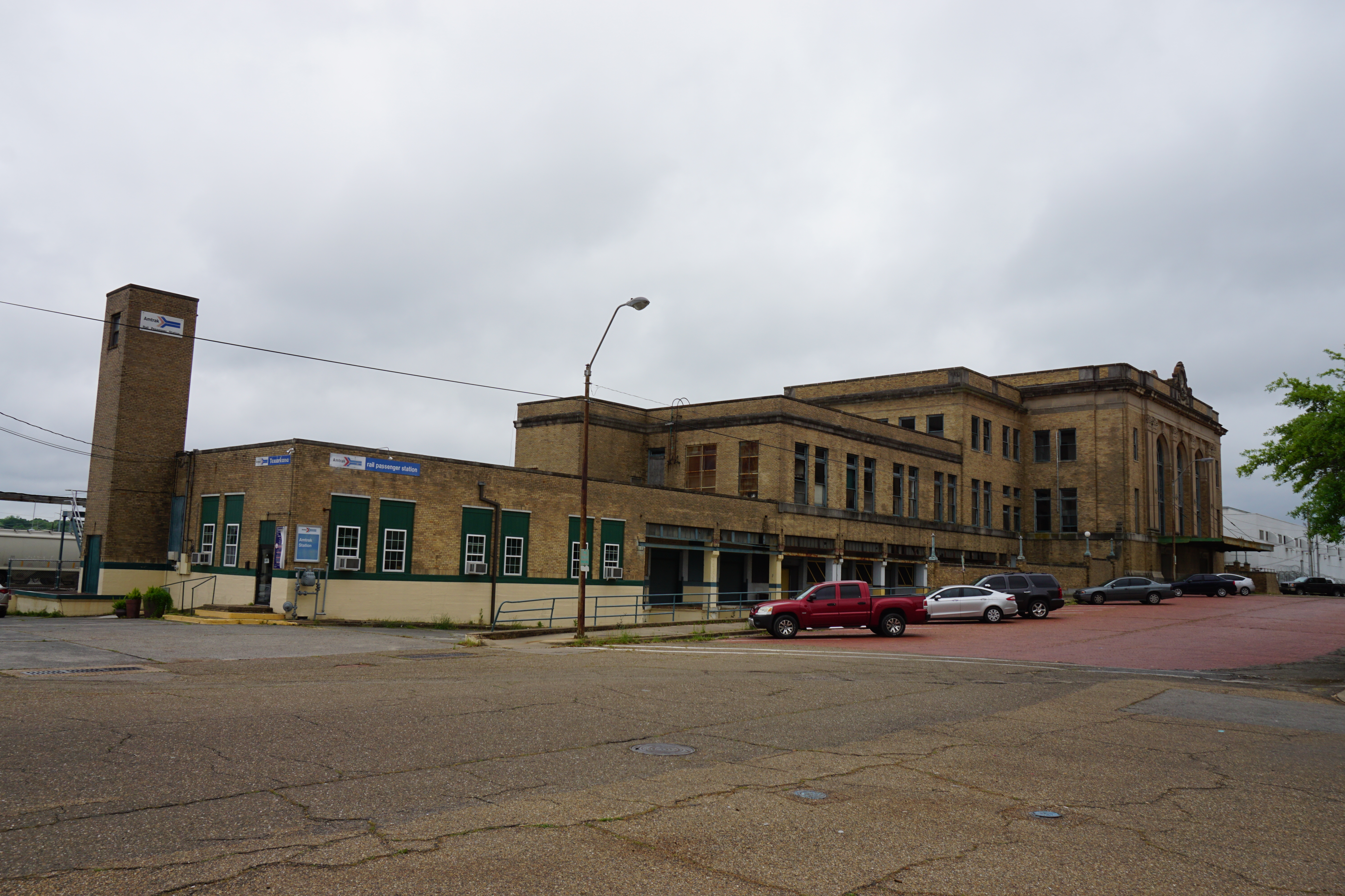 Texarkana Union Station in Texarkana, Arkansas, and Texarkana, Texas (United States).